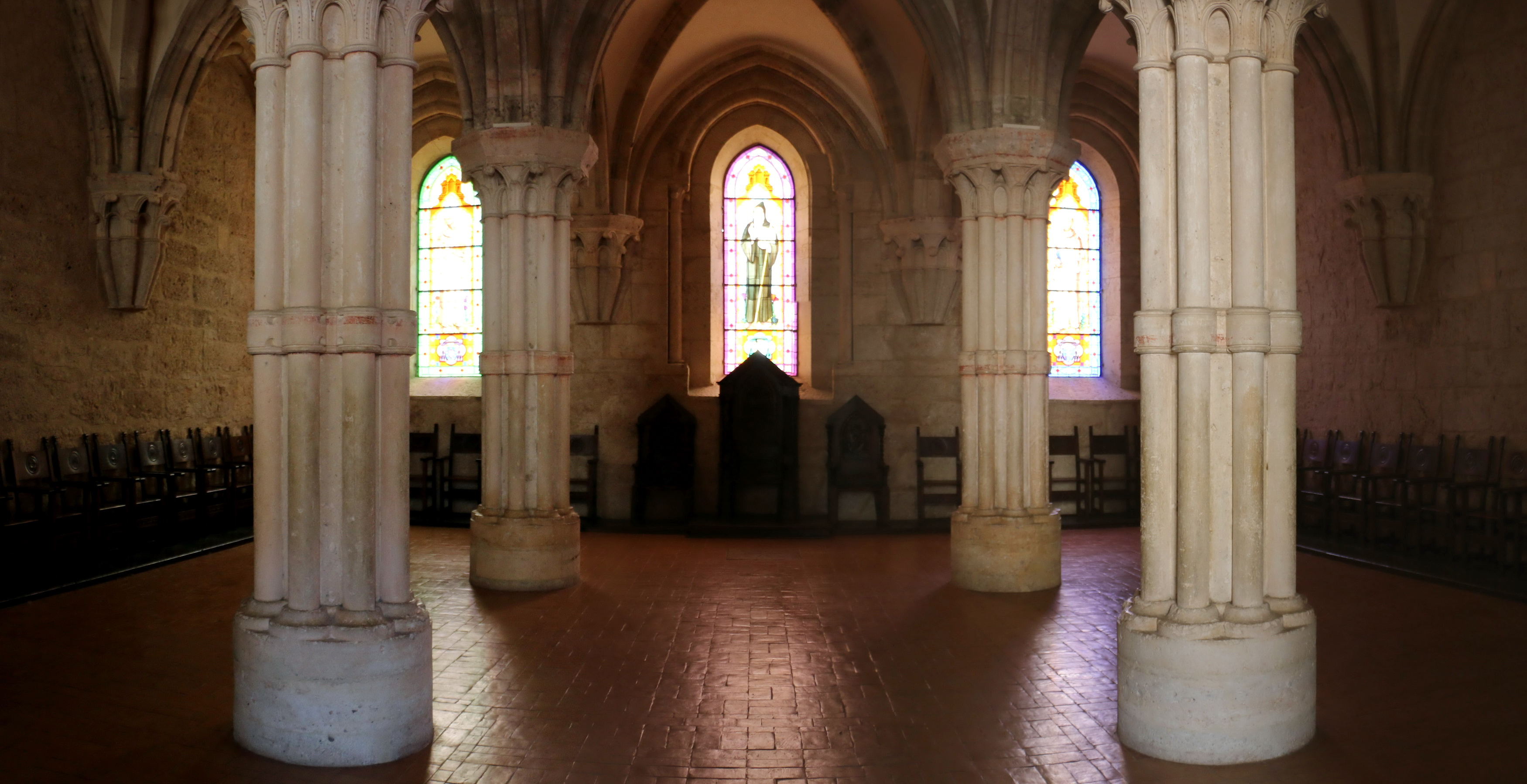 Chaterhouse - Abbazia di Casamari, Veroli, Lazio, Italy Casamari Abbey Native nameAbbazia di CasamariLocationVeroli, Lazio, ItalyCoordinates41° 40′ 17″ N, 13° 29′ 14″ E Authority control VIAF: 142886673 SUDOC: 031912028 BNF: 123038613